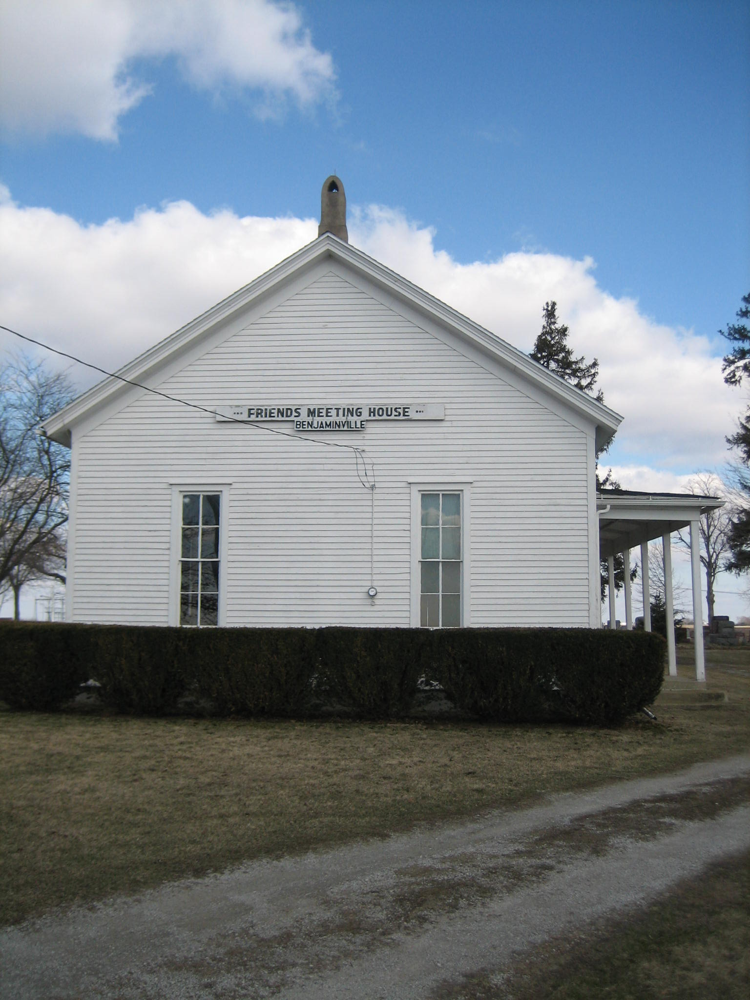 Benjaminville Friends Meeting House and Burial Ground, 9 miles east of Bloomington, Illinois, near the small community of Holder, Illinois. National Register of Historic Places.